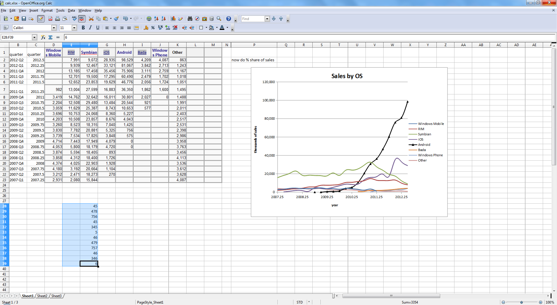 screenshot of Aoo calc 3.4.1